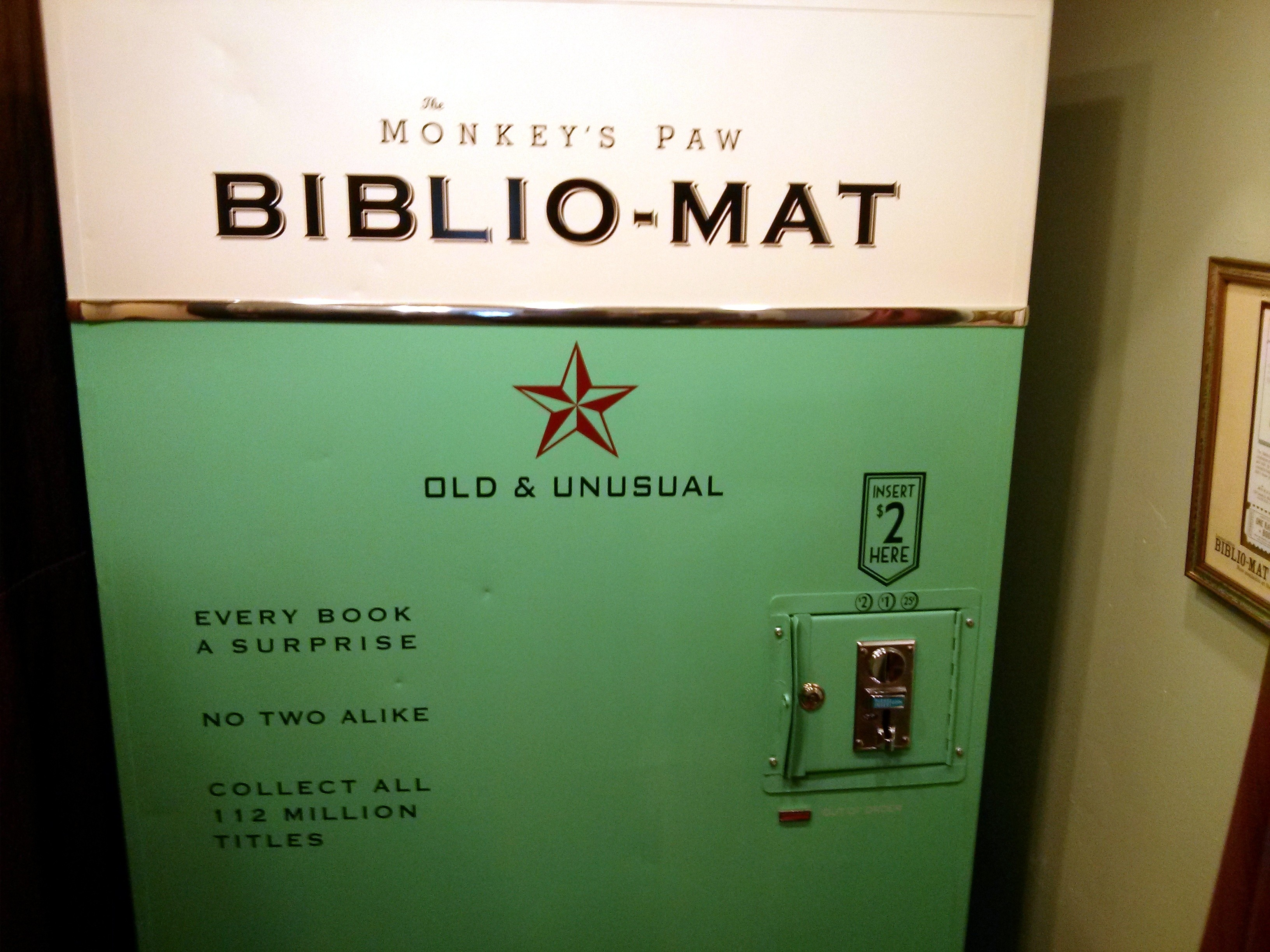 Bibliomat 2, Monkey's Paw books, Dundas Street W, Toronto, ON, Canada